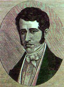 Drawing of José Fernández Madrid president of the United Provinces of the New Granada (now Colombia).